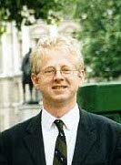 Richard Curtis in London, 1999 My own picture. Created by Rita Molnár 2002. ==